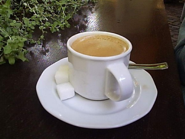 Coffee